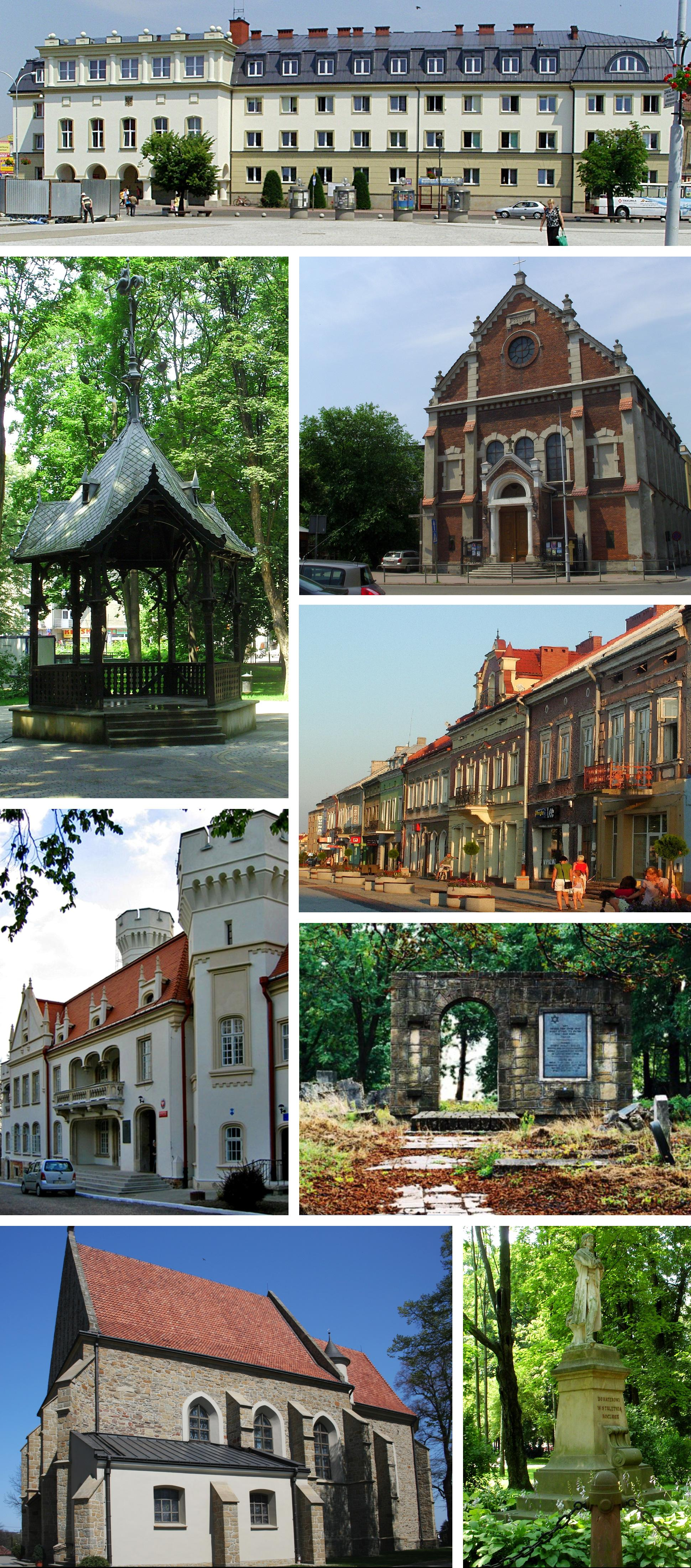 Collage of images of the city of Jasło in Poland, for use in the artcle's infobox. Images are from Commons. (see: listing in the parameter "Source", below)